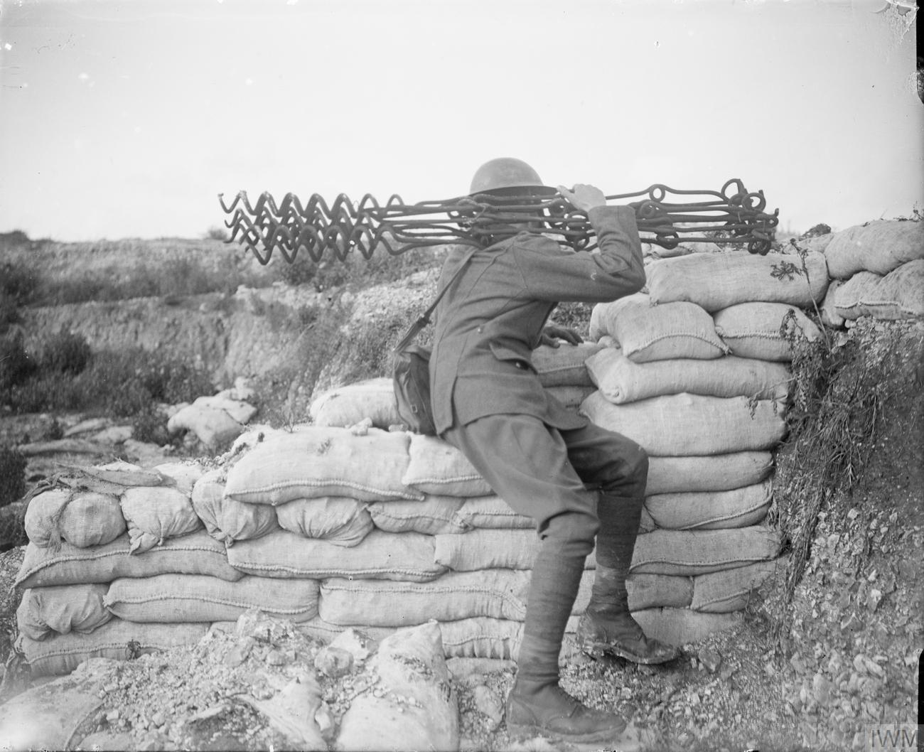 The British Army on the Western Front, 1914-1918 British soldier taking up screw pickets for wiring. Heninel, 23 October 1917.